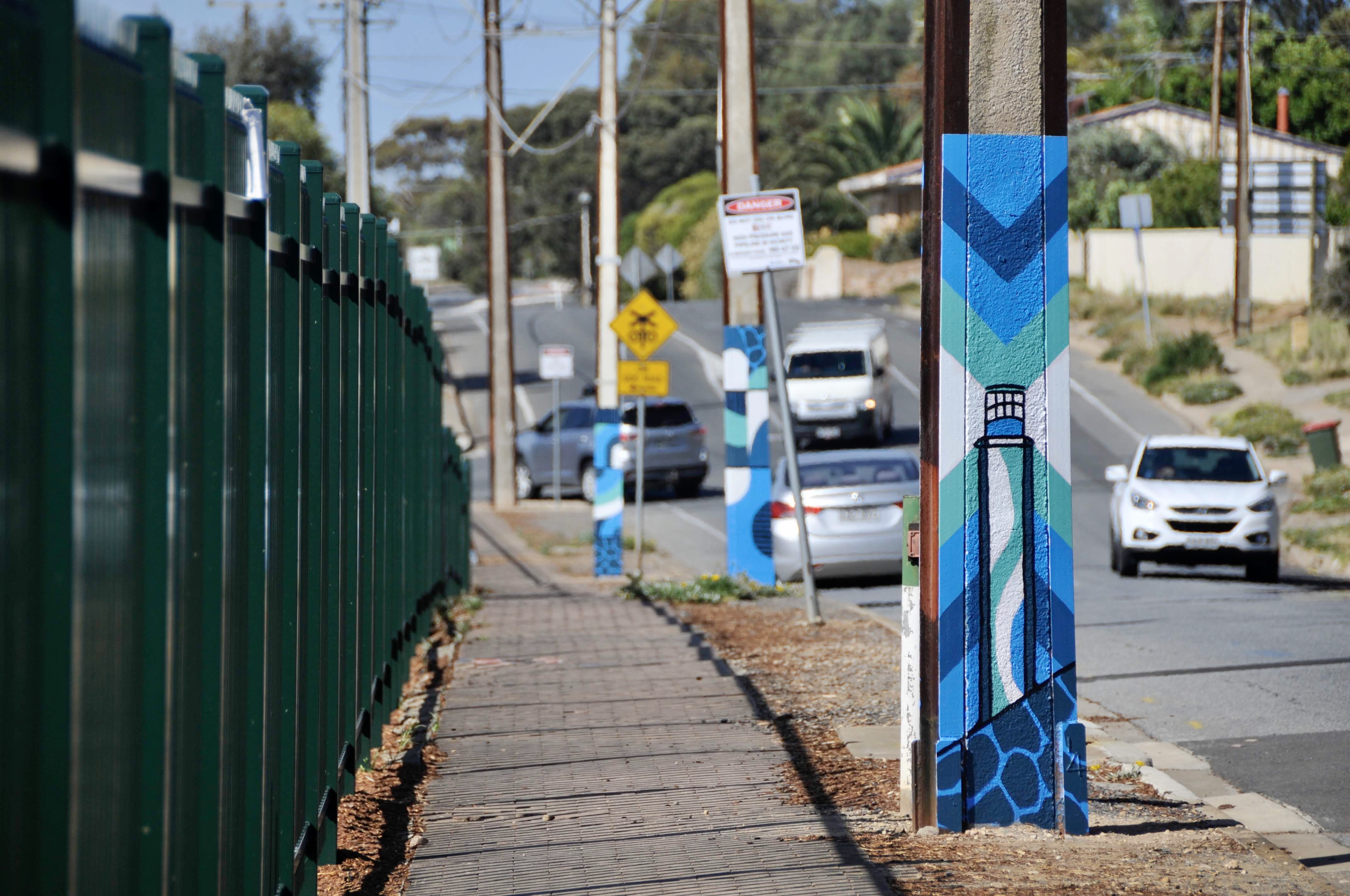 Artwork paid for and organised by the Marino community, outside Marino Rocks station.